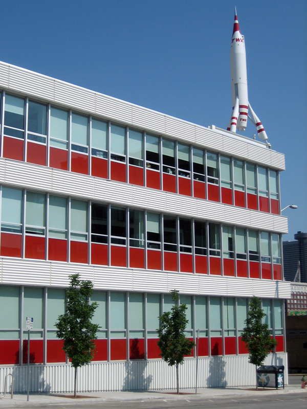 Former Headquarters of Trans World Airlines (TWA)